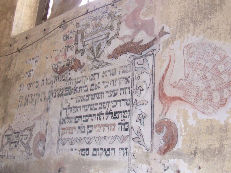 Synagogue in Bychawa